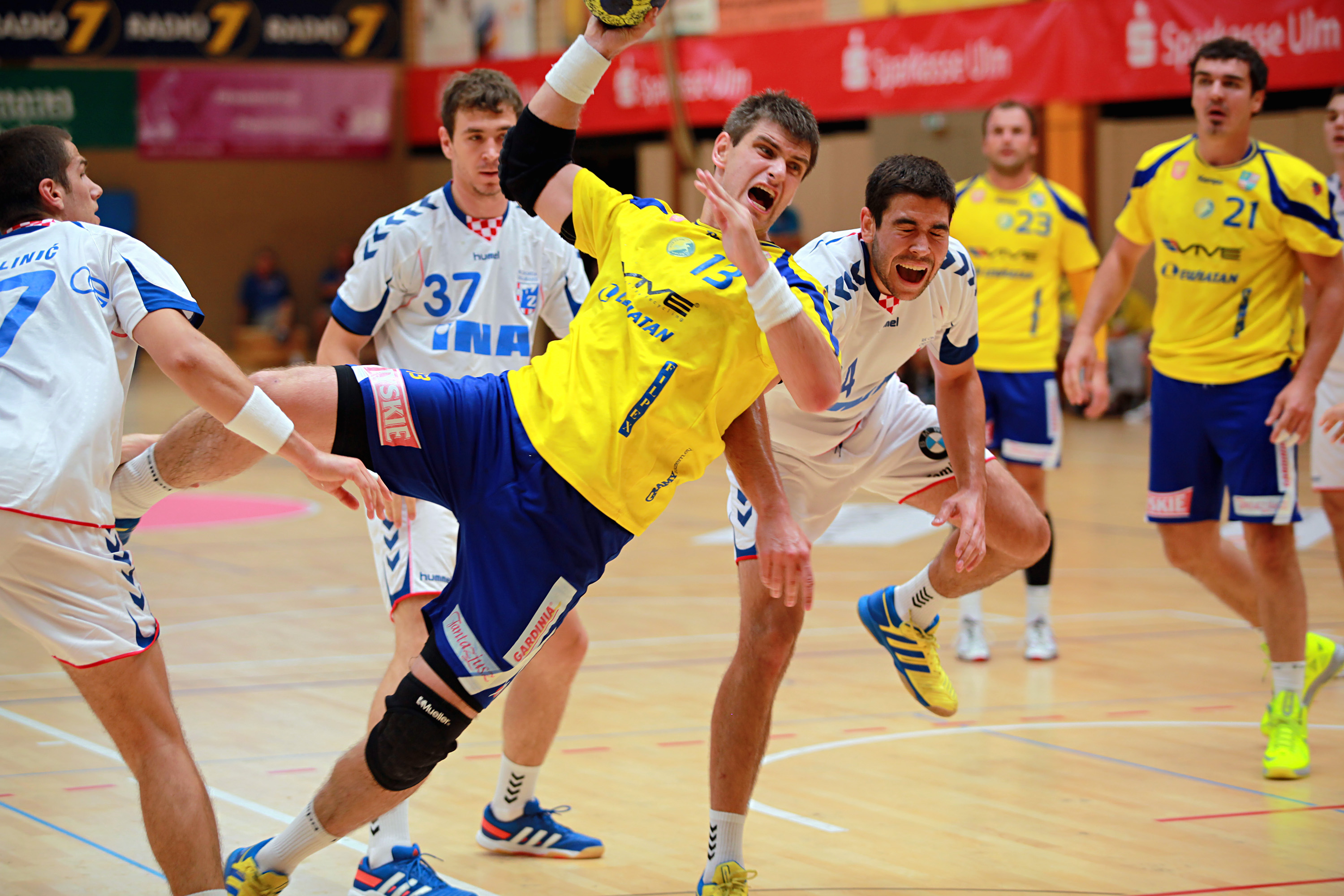 Julen Aguinagalde, on August 17th, 2012 in Ehingen (Germany), during the Sparkassen Cup (formerly known as Schlecker Cup).